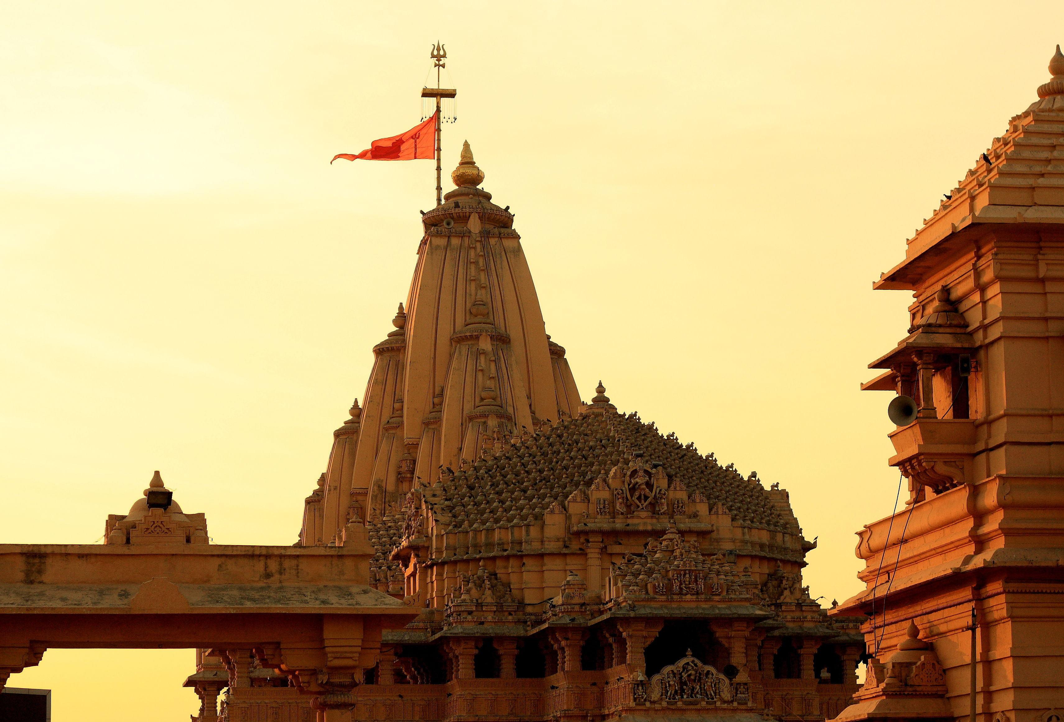 Somnath Jyotirling Prabhas Patan